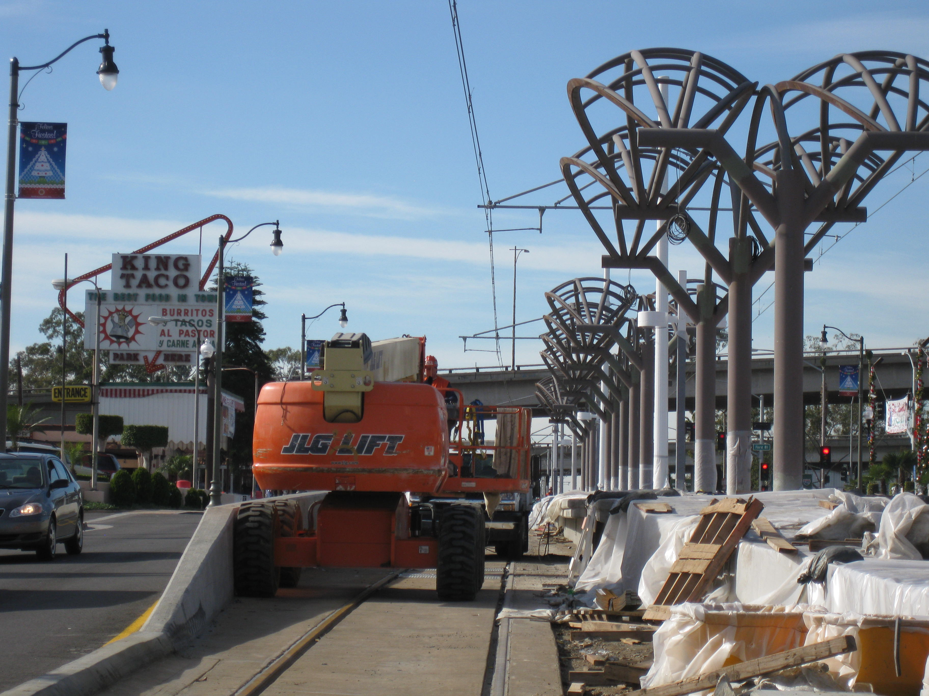 Gold Line Maravilla station under construction with King Taco in the background